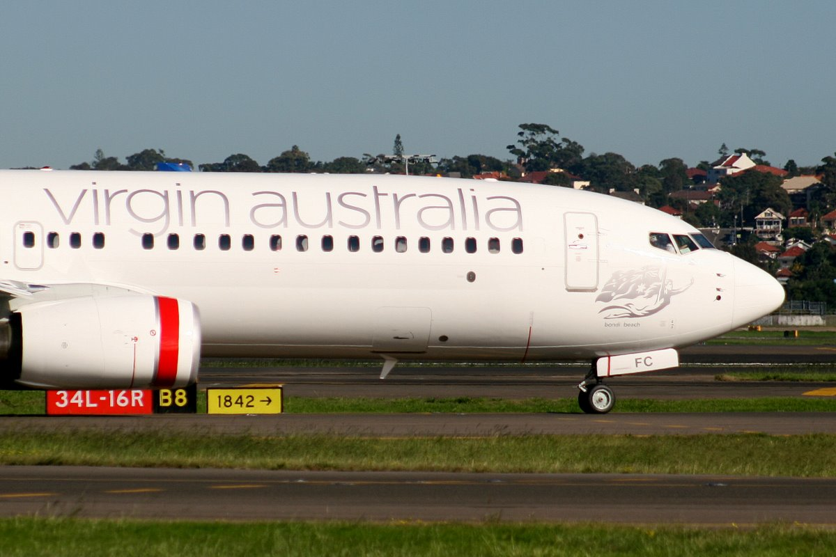 Close up of the forward fuselage of Boeing 737 with nose art Bondi Beach in the new Virgin Australia colour scheme at Sydney Airport.